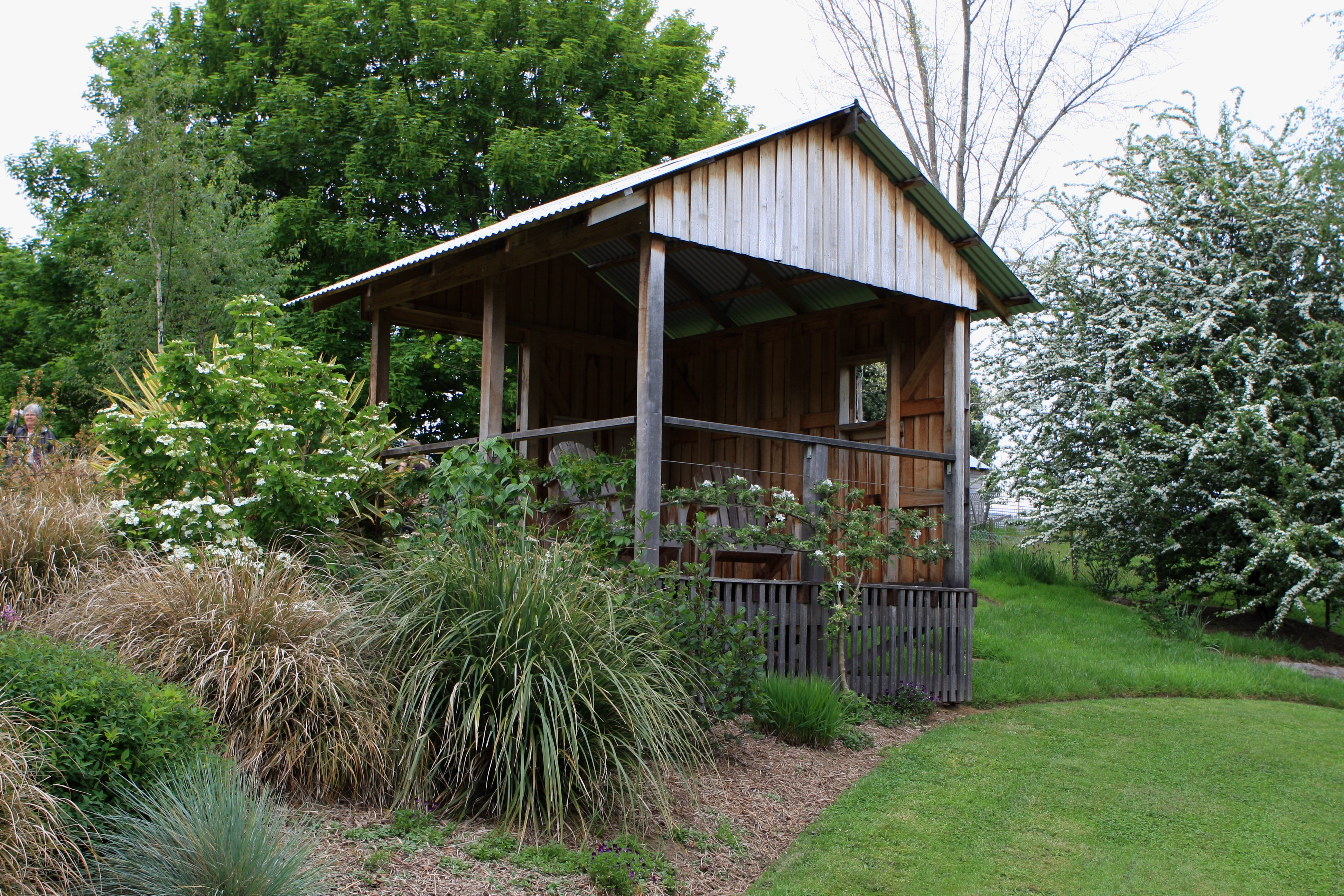 Wychwood is the garden and nursery of Peter Cooper and Karen Hall. oz9 087